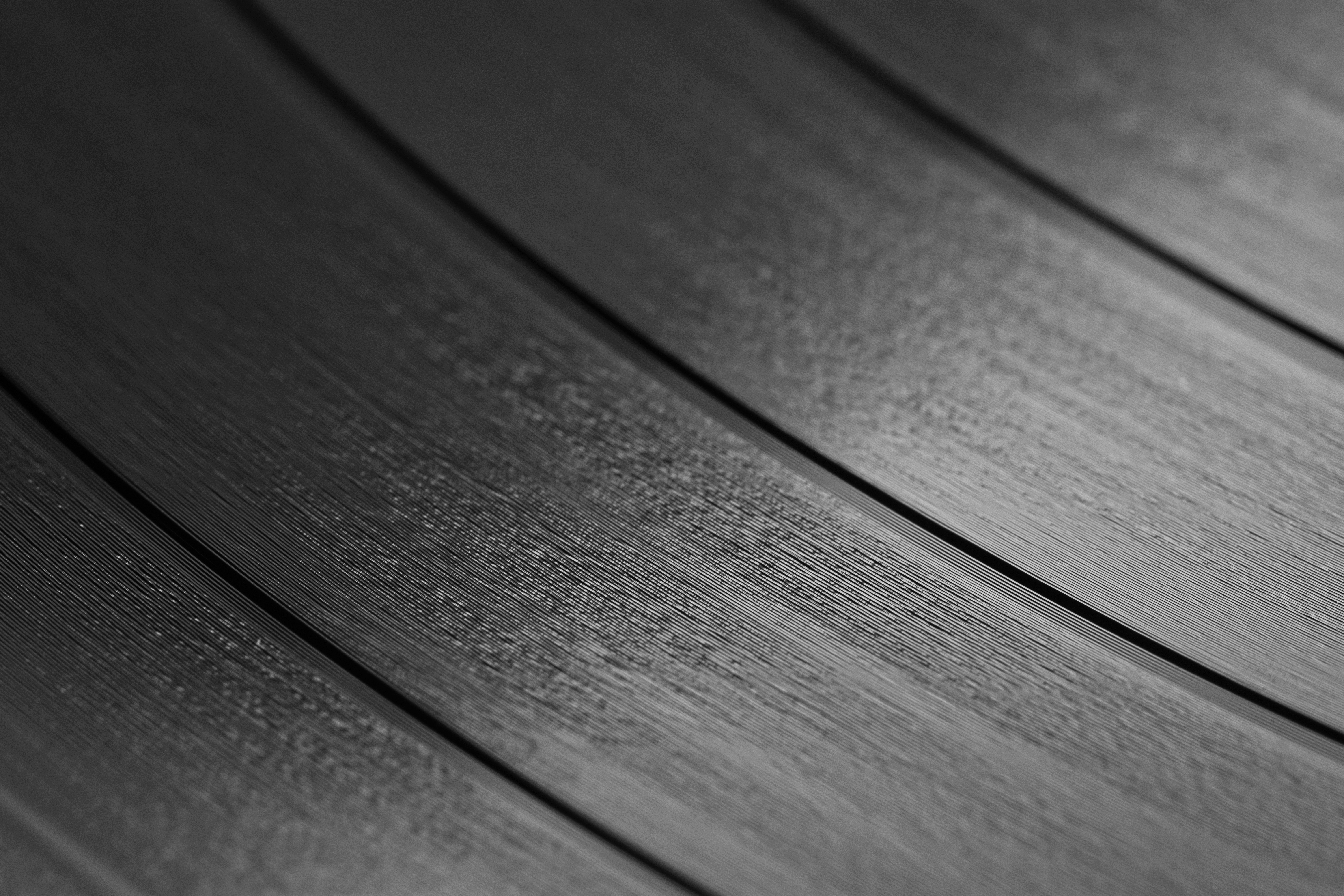 A macro shot of the grooves on a 12 inch LP vinyl record.